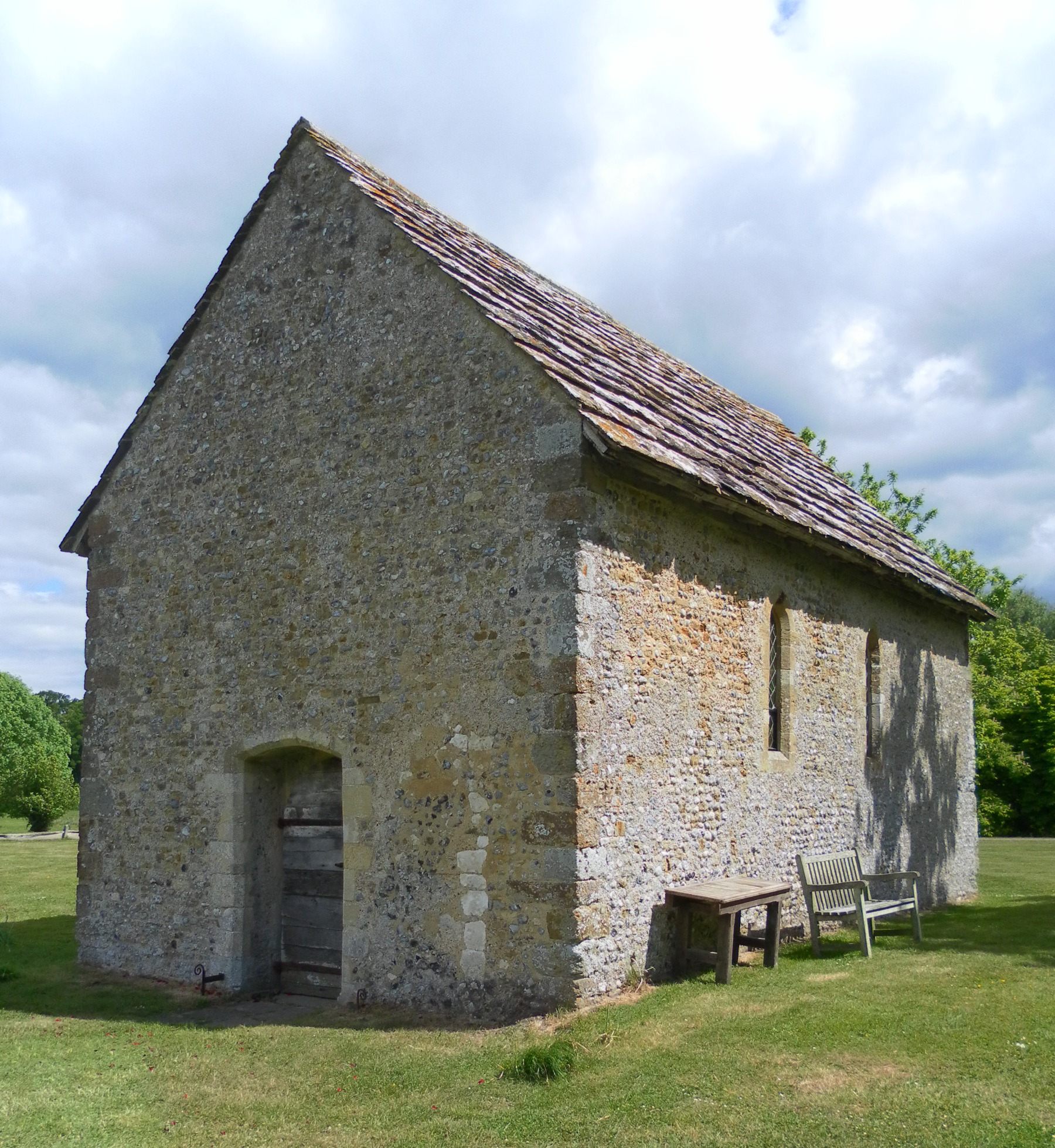 Bailiffscourt Chapel, Bailiffscourt Hotel, Atherington, Arun District, West Sussex, England, viewed from the northeast. A former private chapel (occasionally used for public worship) in the grounds of the former Bailiffscourt Manor. Listed at Grade II* by English Heritage (NHLE Code 1233450)